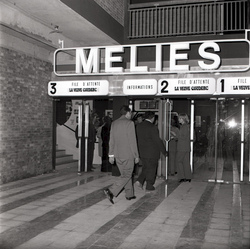 Le Méliès